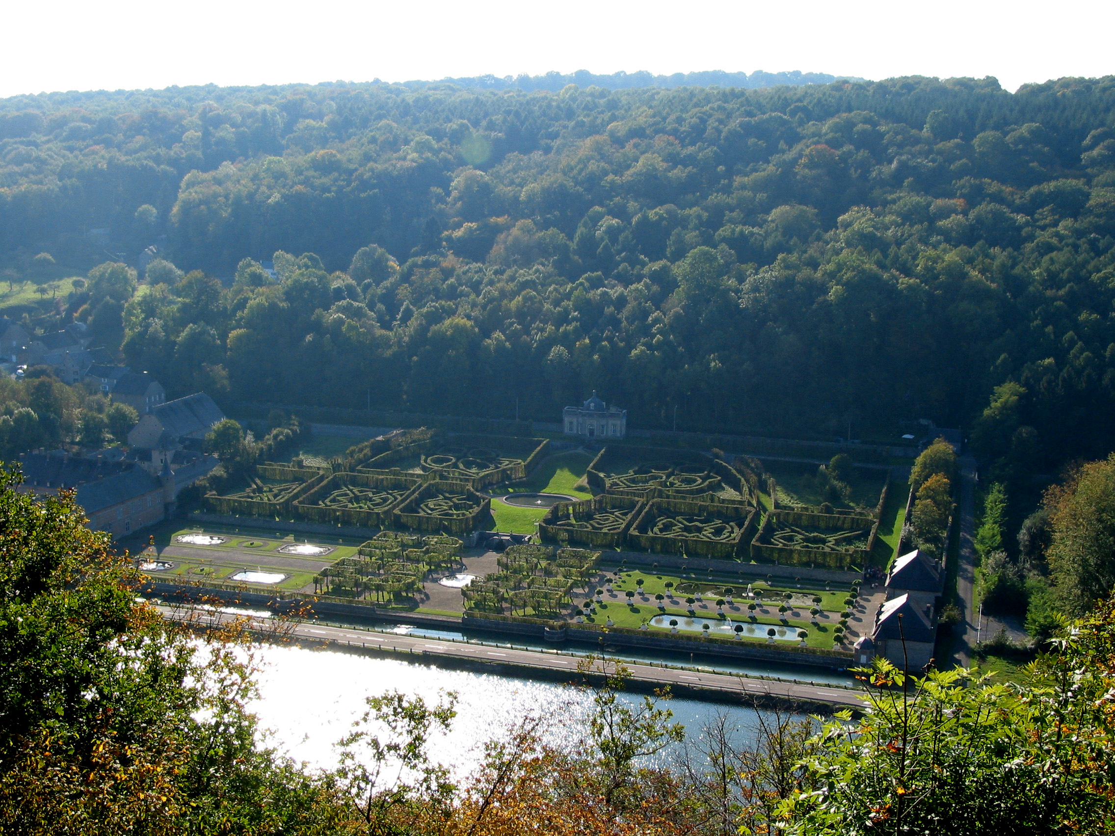 The left bank of the Meuse river between Dinant and Hastière (Belgium) – View on the castle of Freÿr (Waulsort) and its gardens (XVII/XVIIIth centuries) from the Anseremme-Beauraing road.